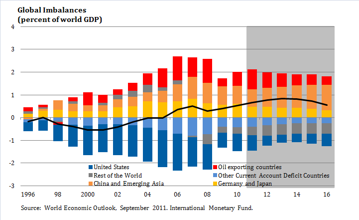 Global Imbalances (1996-2016)